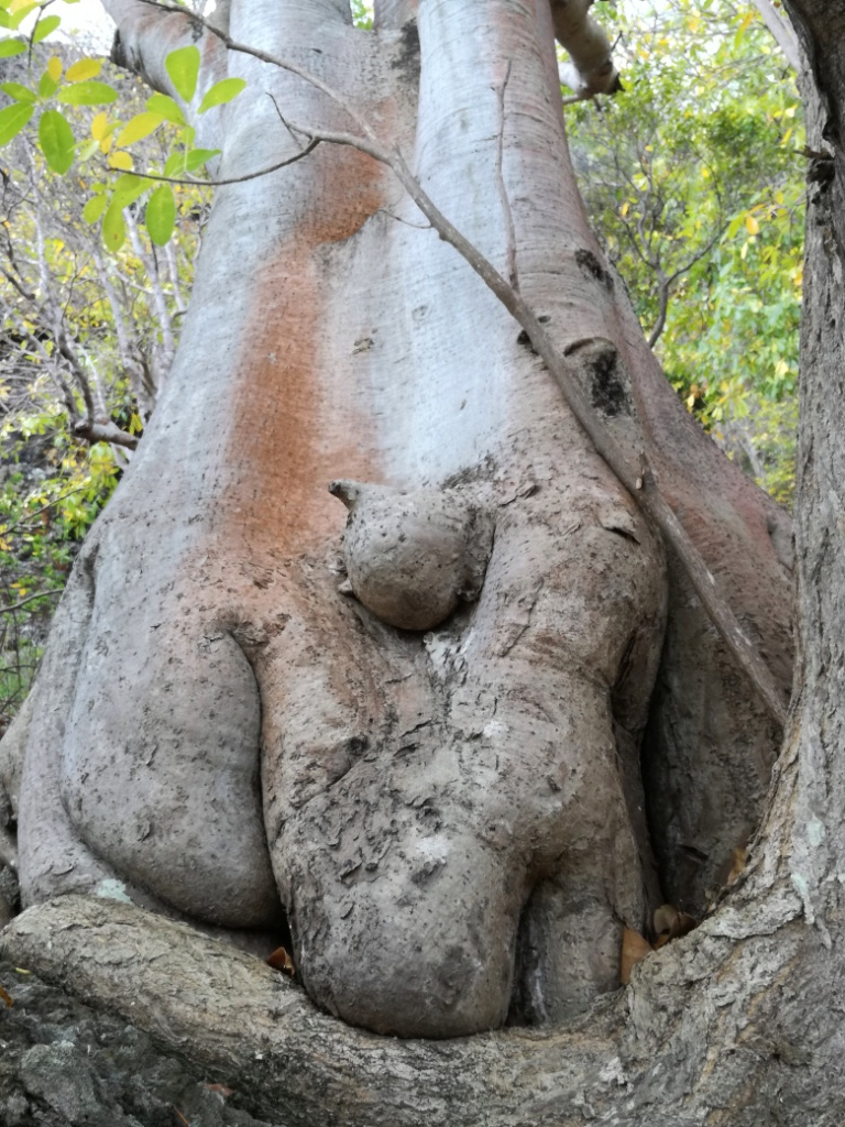 Cyphostemma mappia - Bois Mapou - Endemic Mauritian caudiciform. In habitat in SW Mauritius.